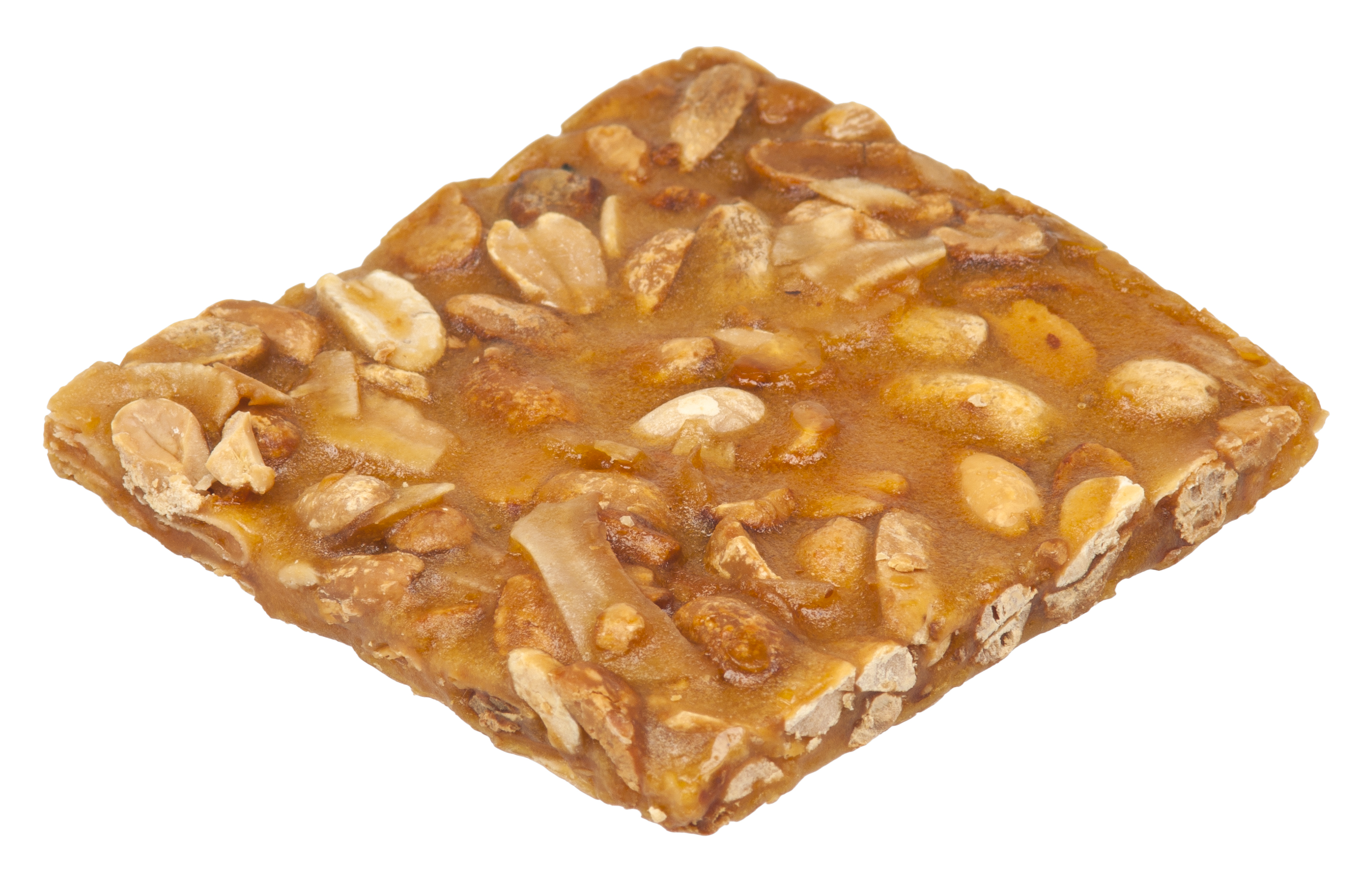 The Atkinson Peco Peanut Brittle Bar. A peanut brittle that also contains coconut. Sold in America.